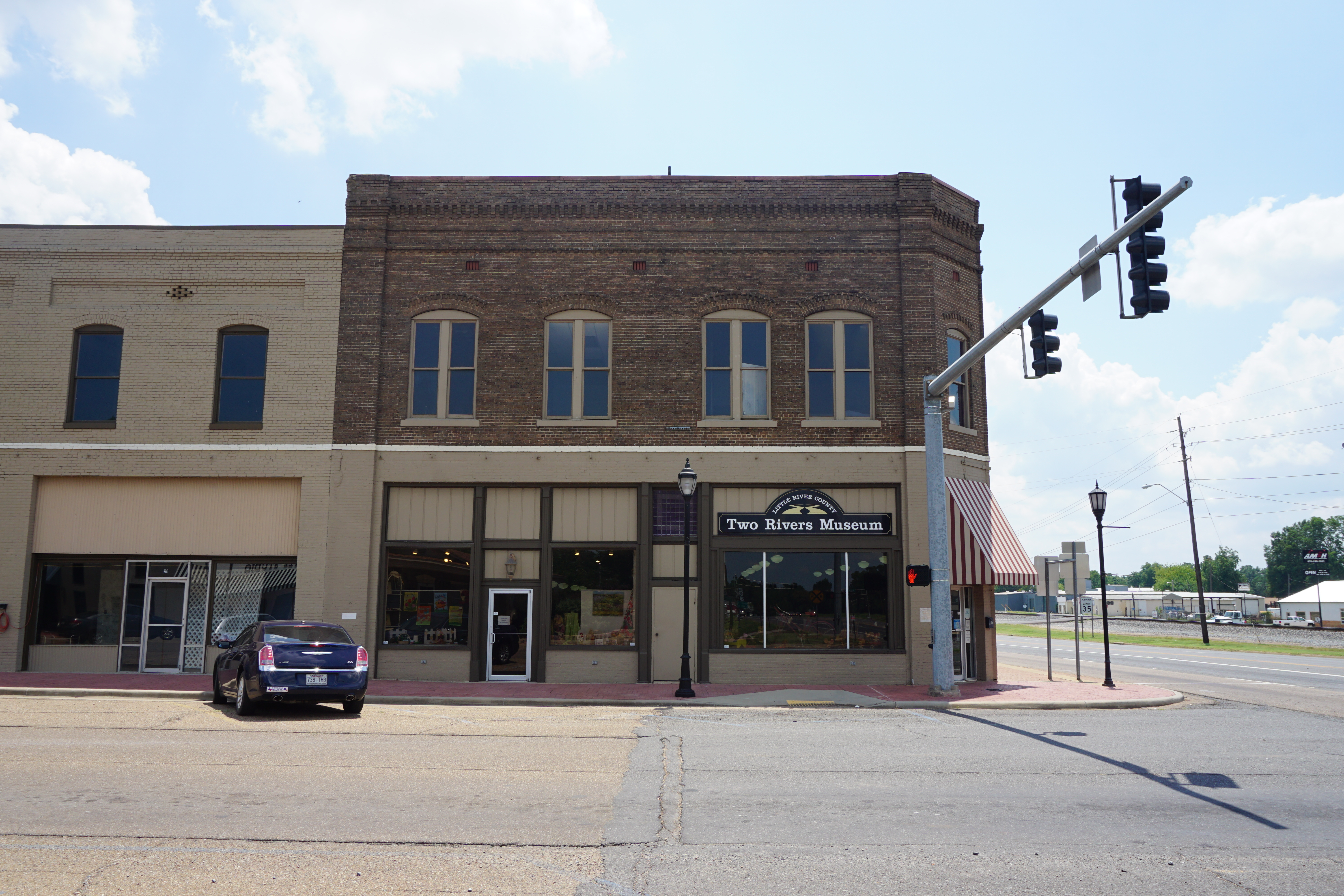 The Two Rivers Museum in Ashdown, Arkansas (United States).